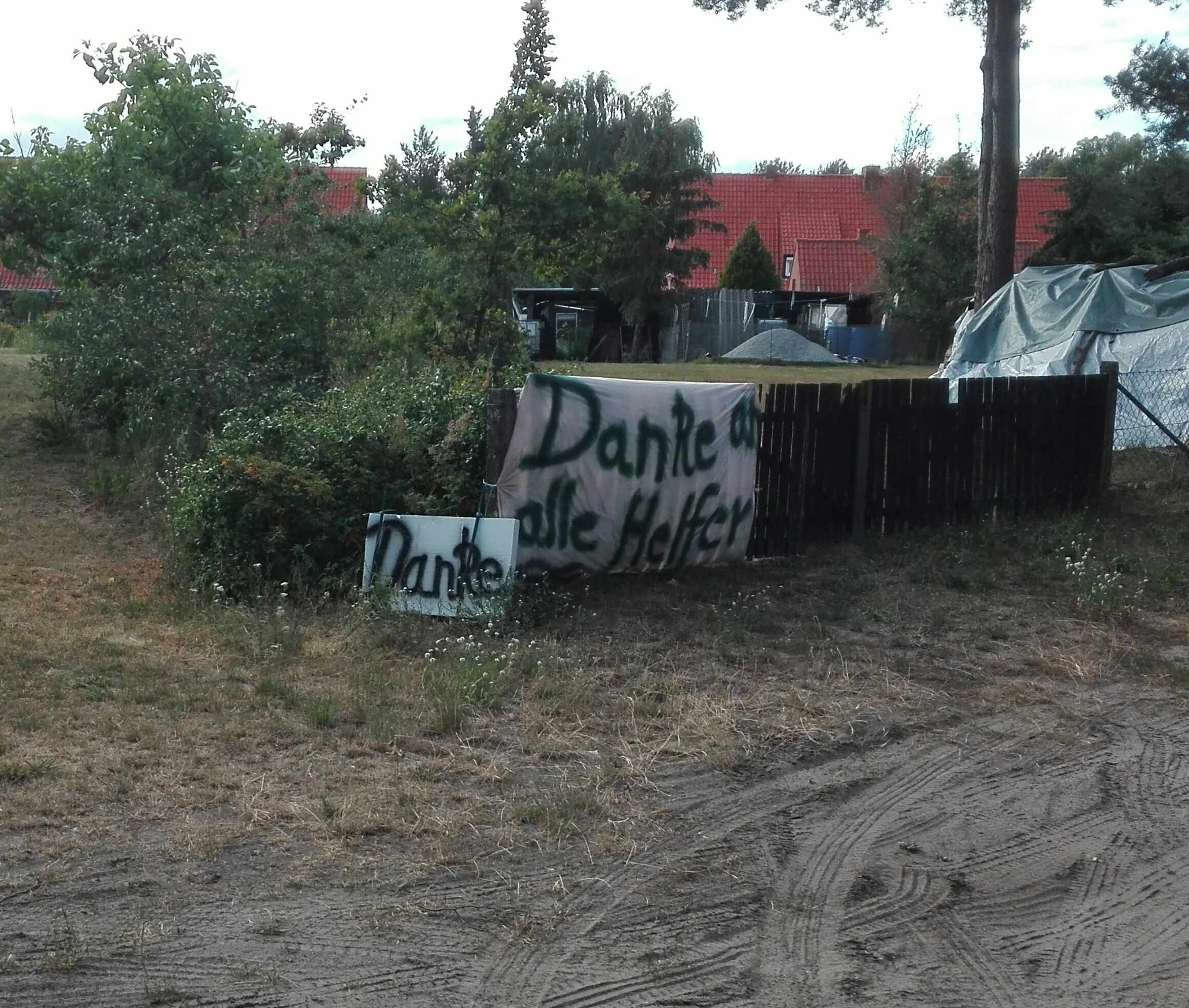 Sign of gratitude to the helpers from locals after Lübtheen 2019 wildfire